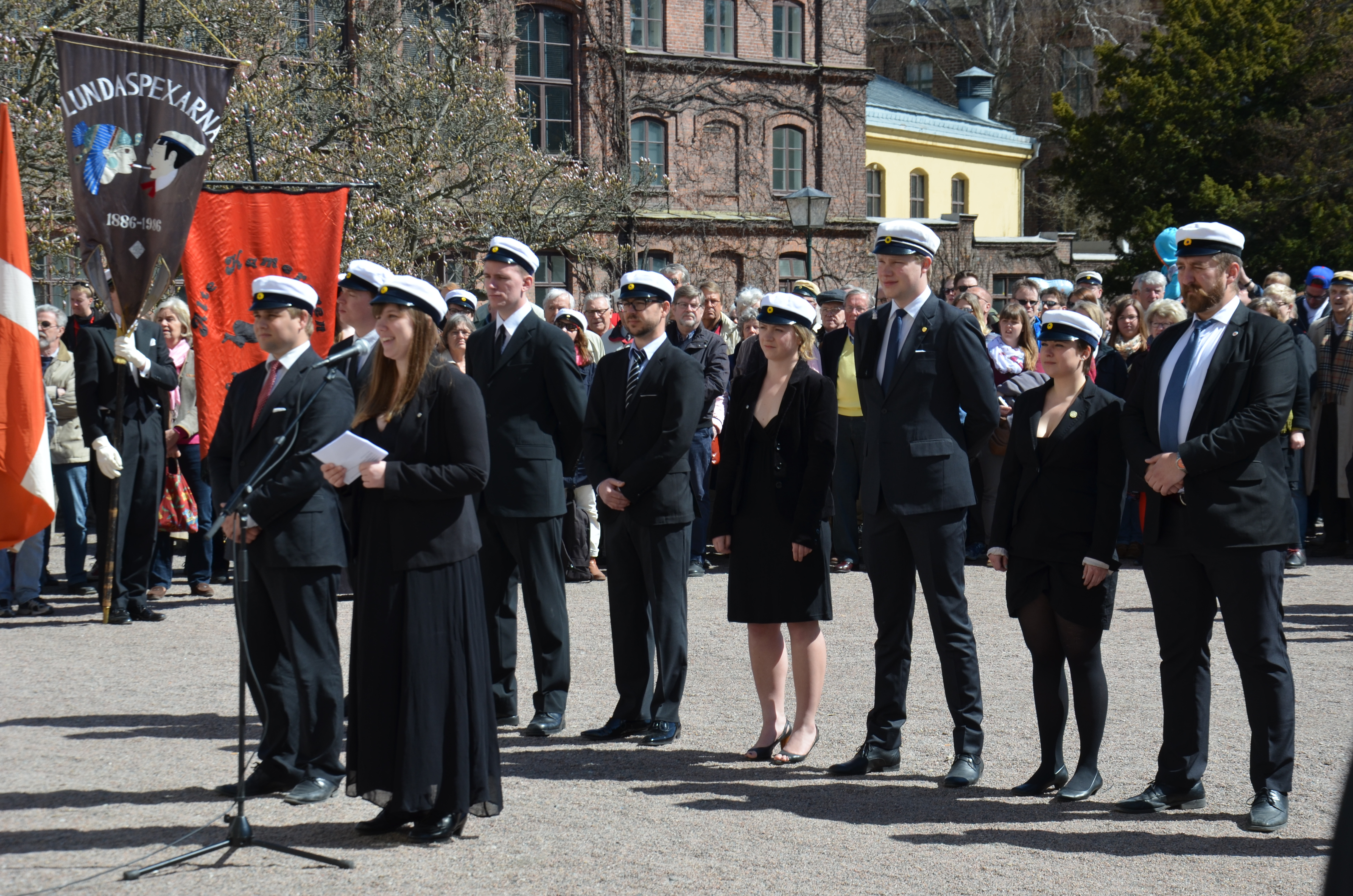 Rektorsuppvaktning 1 maj 2013, Lunds universitets studentkårer